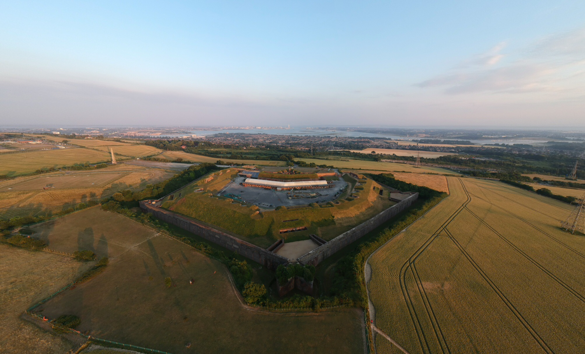 Fort Nelson, Portsdown Hill, look from south